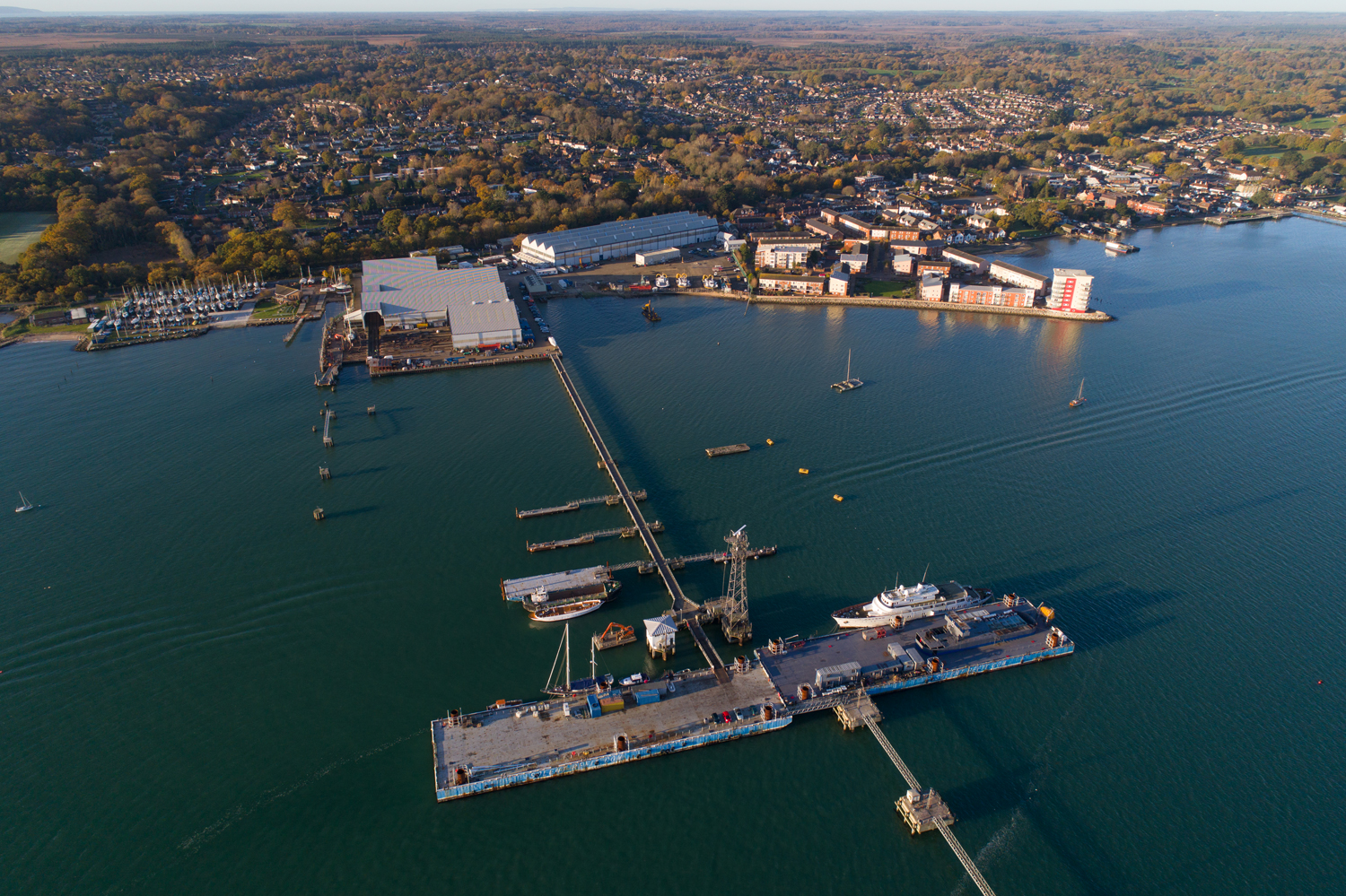 Fairline Yacht's Marine Park facility in Hythe, Hampshire